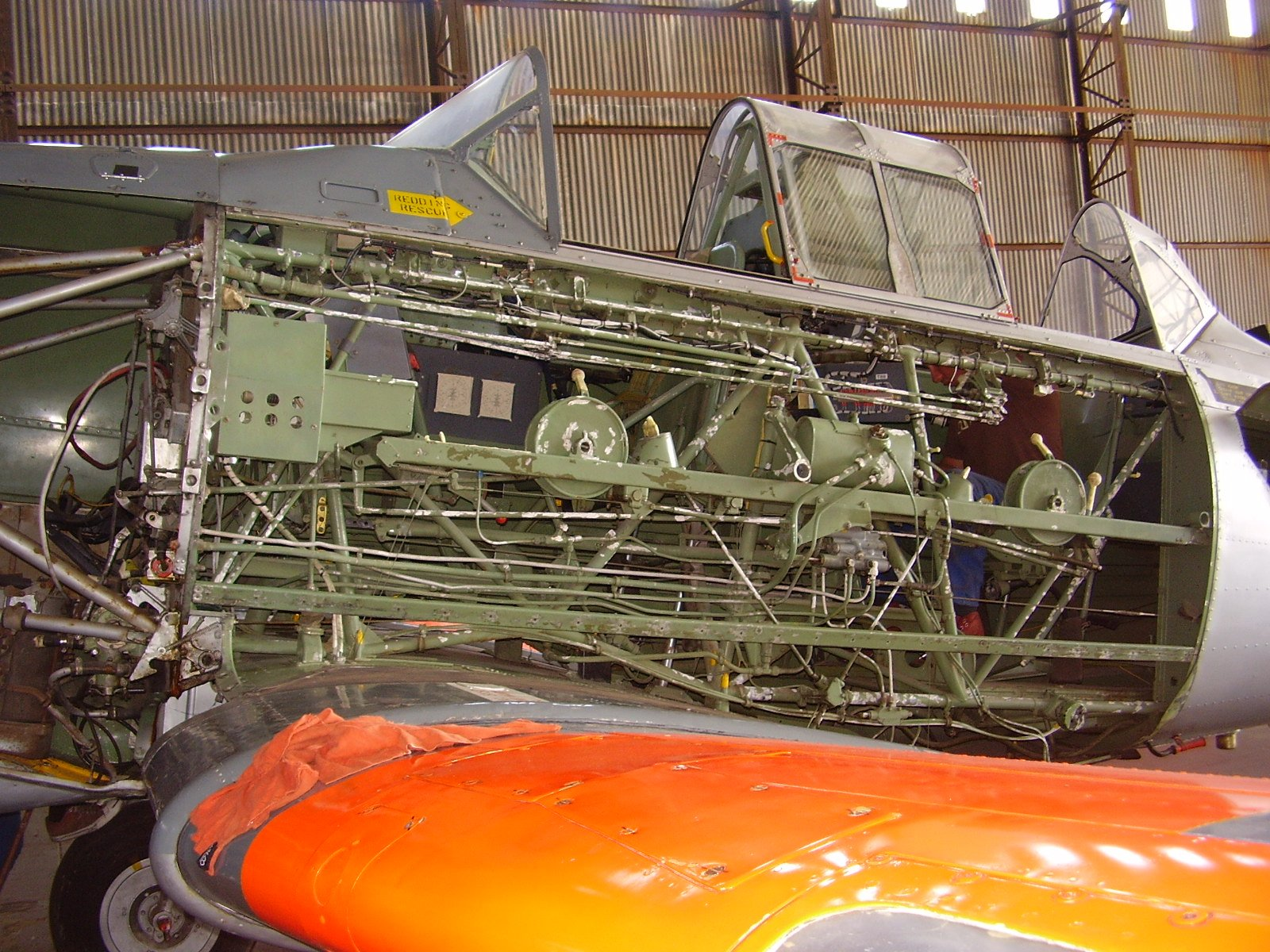 T-6 Texan (Harvard) Trainer undergoing restoration at the South African Airforce Museum, Port Elizabeth